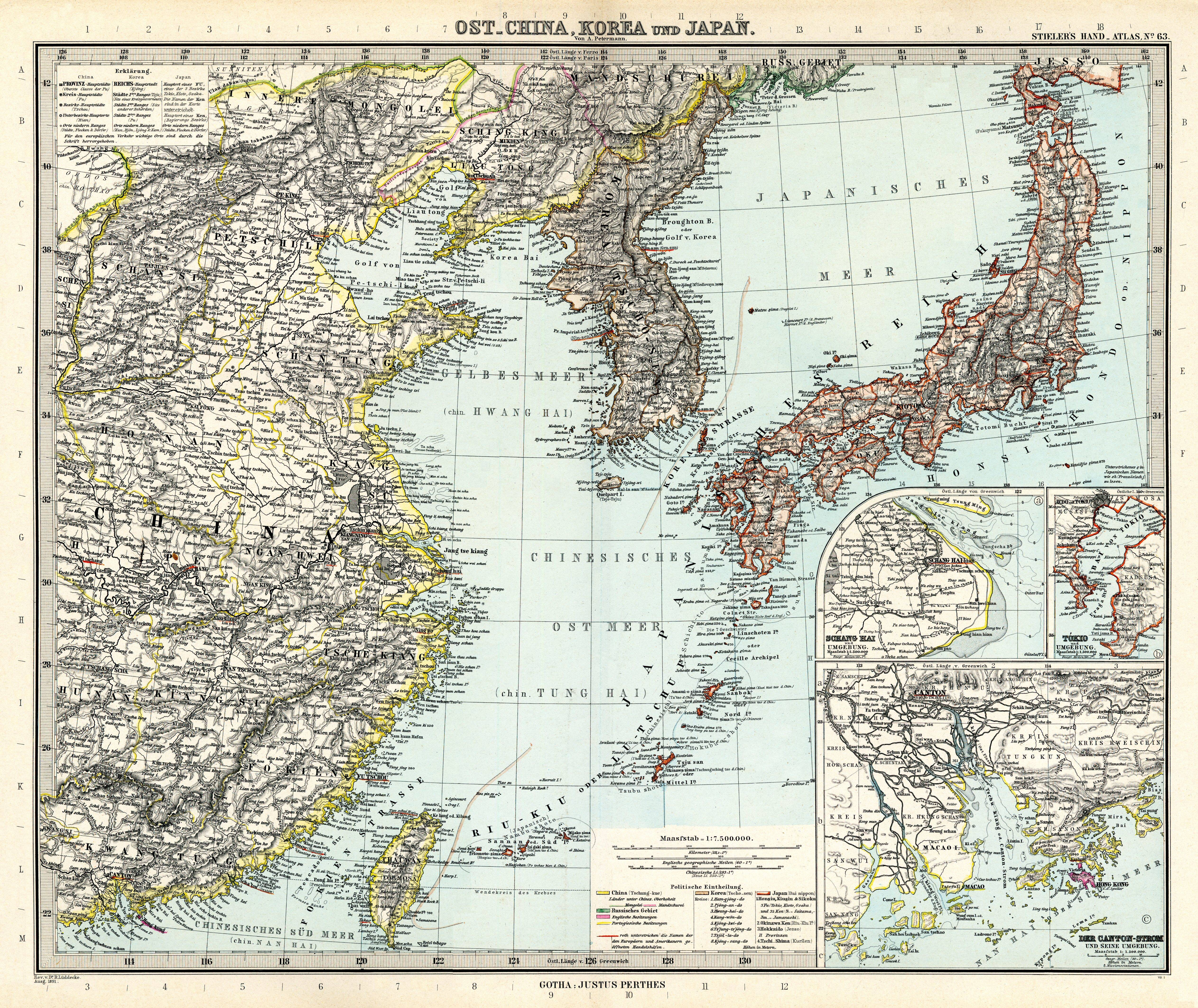 East China, Korea and Japan